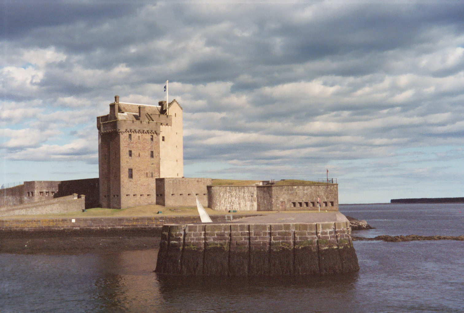 View of Broughty Castle in Dundee.